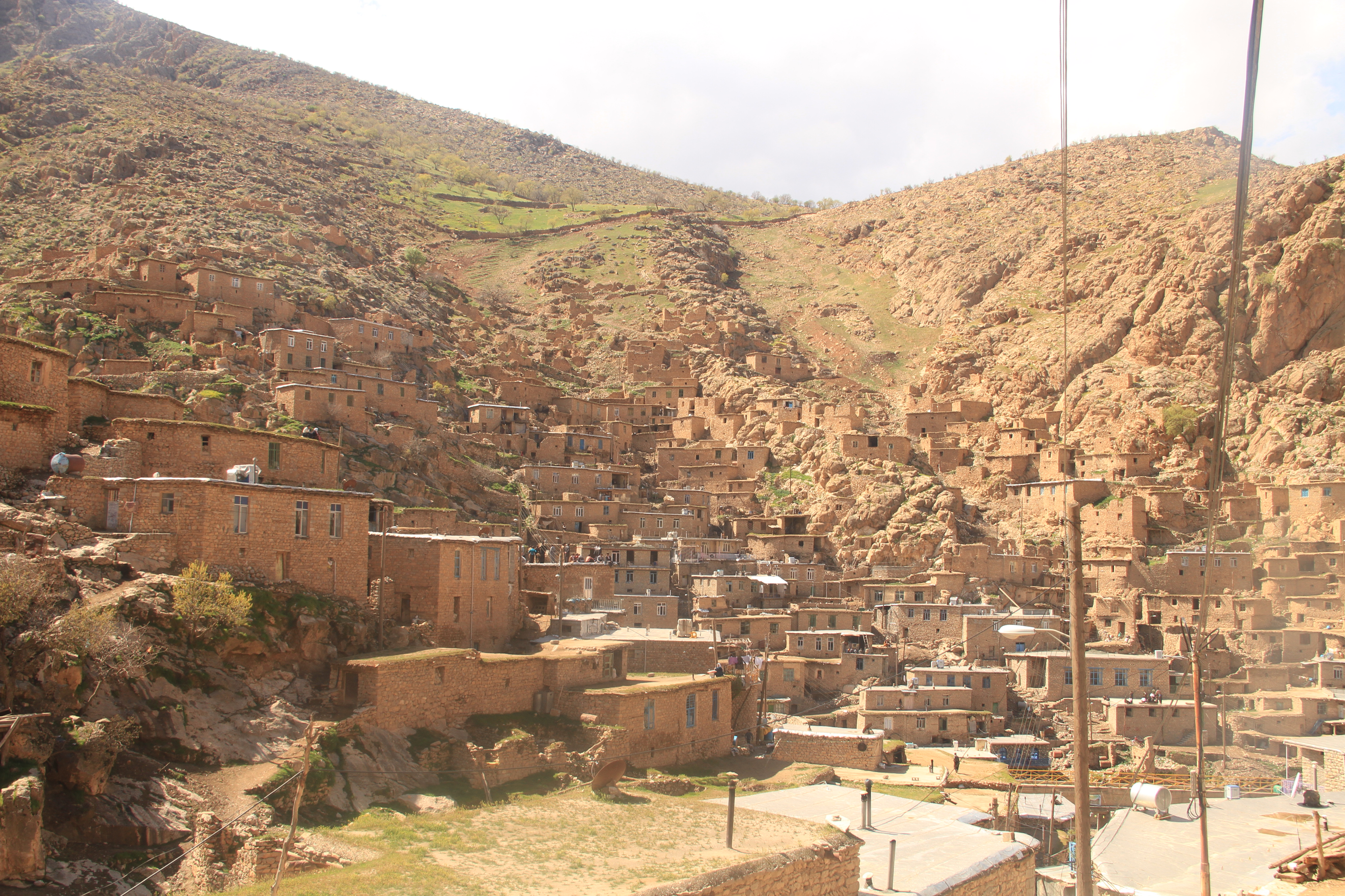 Palangan Village in Hawraman, Kamyaran,Kurdistan, Iran